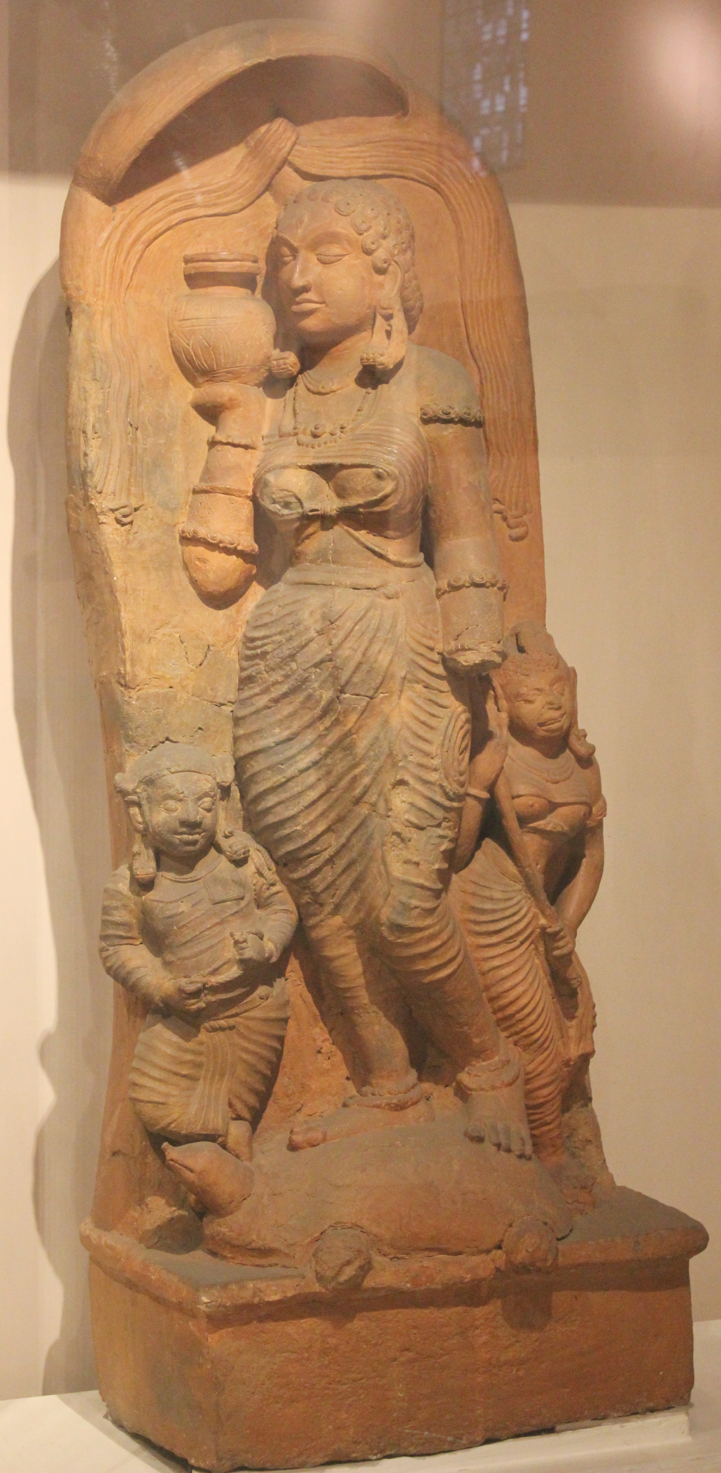 Goddess Yamuna made out of Terracota